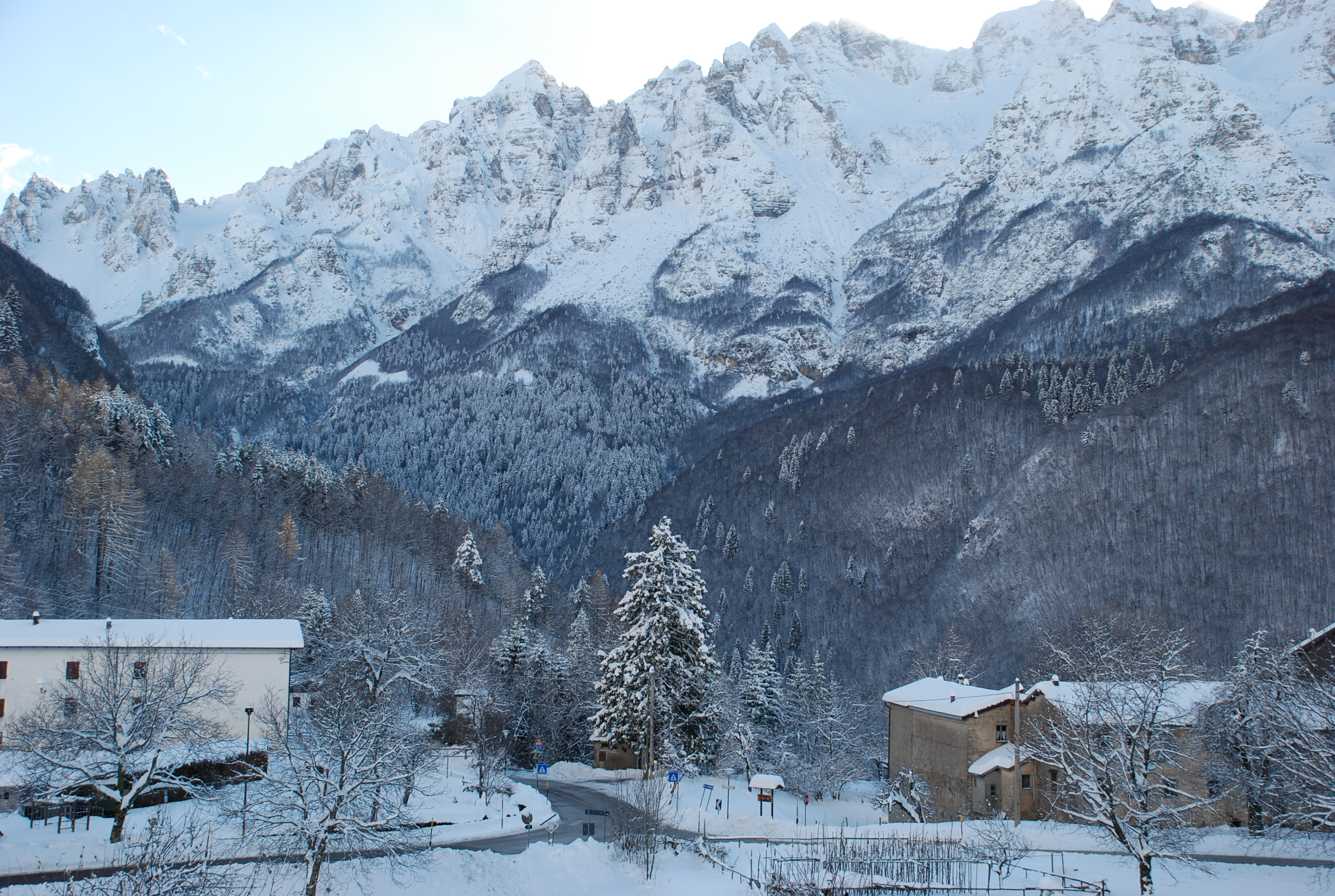 Vallarsa (Italy): view from the village of Camposilvano towards south